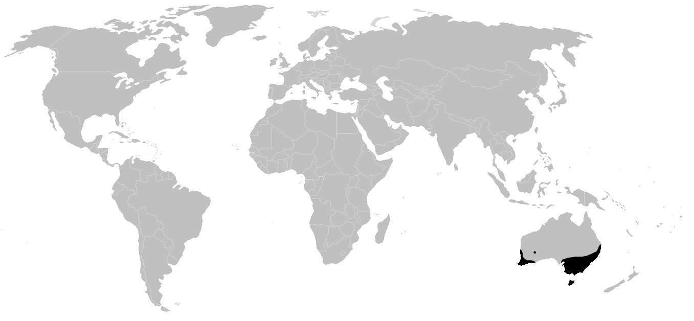 Known world distribution of Artoriopsis expolita (Lycosidae), after data from Framenau (2007).